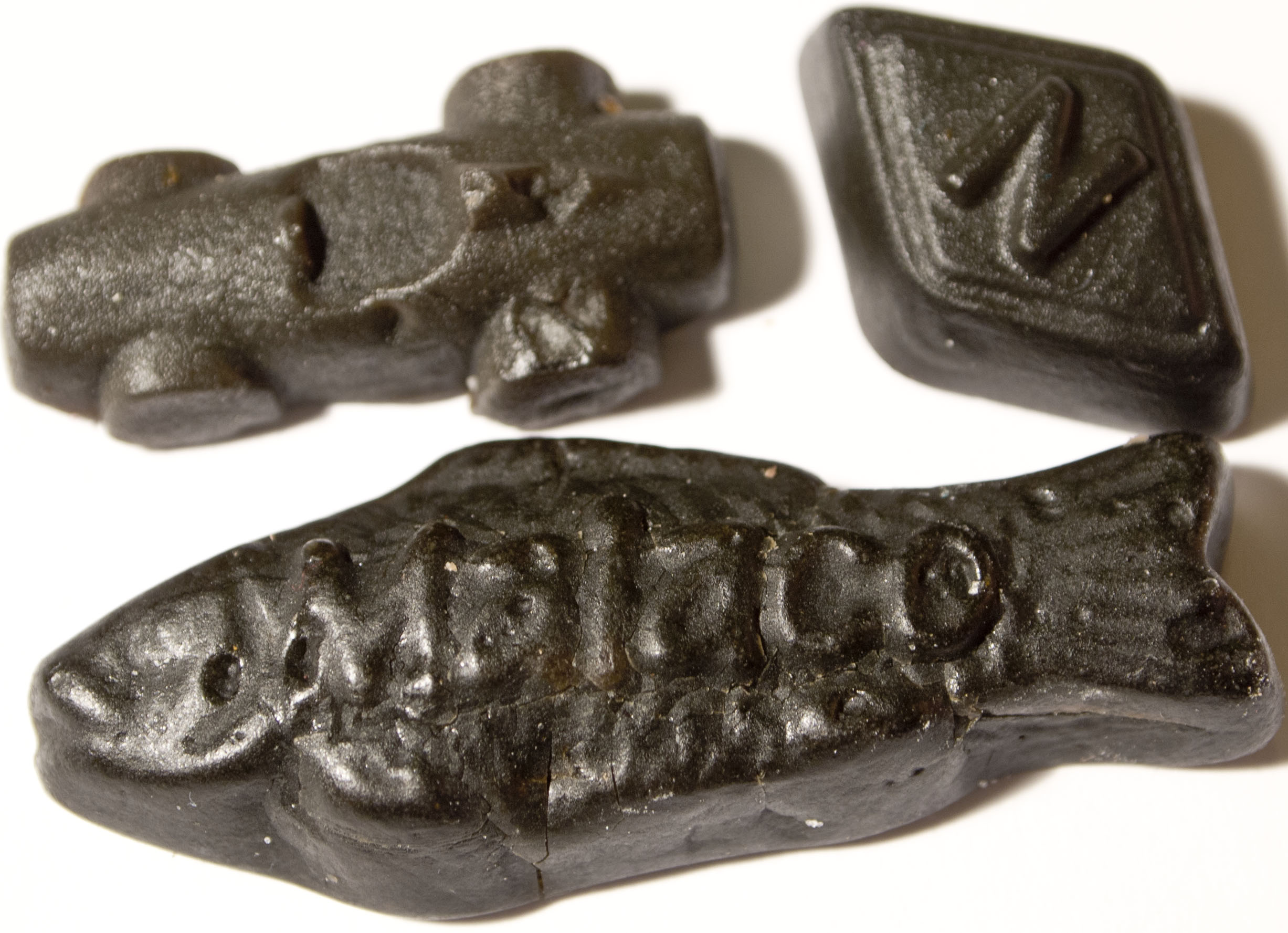 Salmiak candy characters: car, letter and fish.